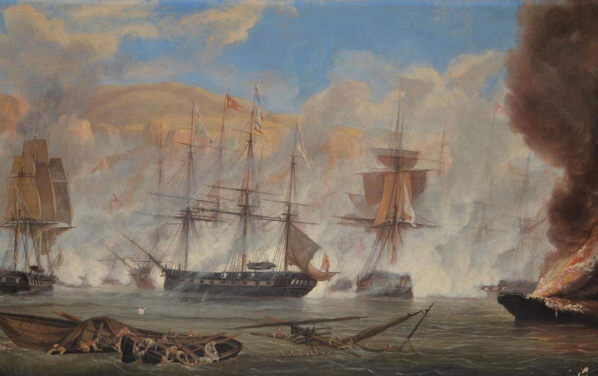 HMS Talbot, Captain Hon. F. Spencer in Action on Naverino, 20 October 1827, by John Christian Schetky Oil on canvas Signed and dated 1831 lower left, inscribed to label verso 67 x 108cm (26¼ x 42½ in.) Original ownerː Reputed to be 8th Earl Spencer, Althorp House, Northamptonshire